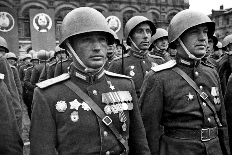 Soviet Victory Parade on Red Square